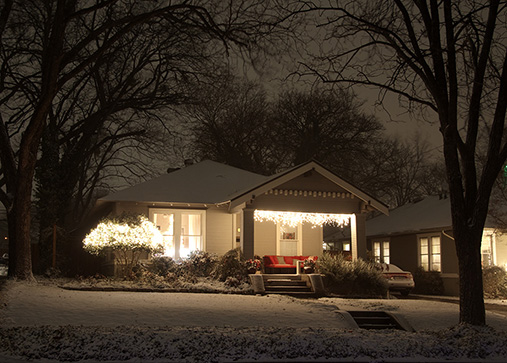 Vickery Place, Dallas, TX, Christmas Eve 2009